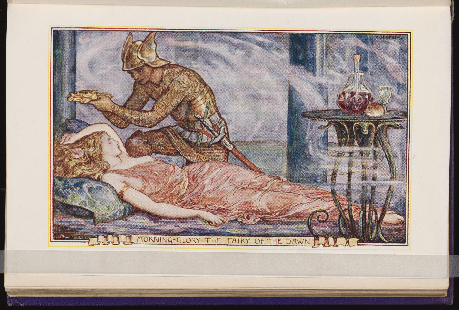 "Morning-Glory the Fairy of the Dawn," lithograph by H.J. Ford, part of "The Violet Fairy Book," edited by Andrew Lang, with numerous illustrations by H.J. Ford. Published by Longmans, Green & Co., New York, 1901. General Collection, Beinecke Rare Book and Manuscript Library, Yale University, New Haven, Connecticut.